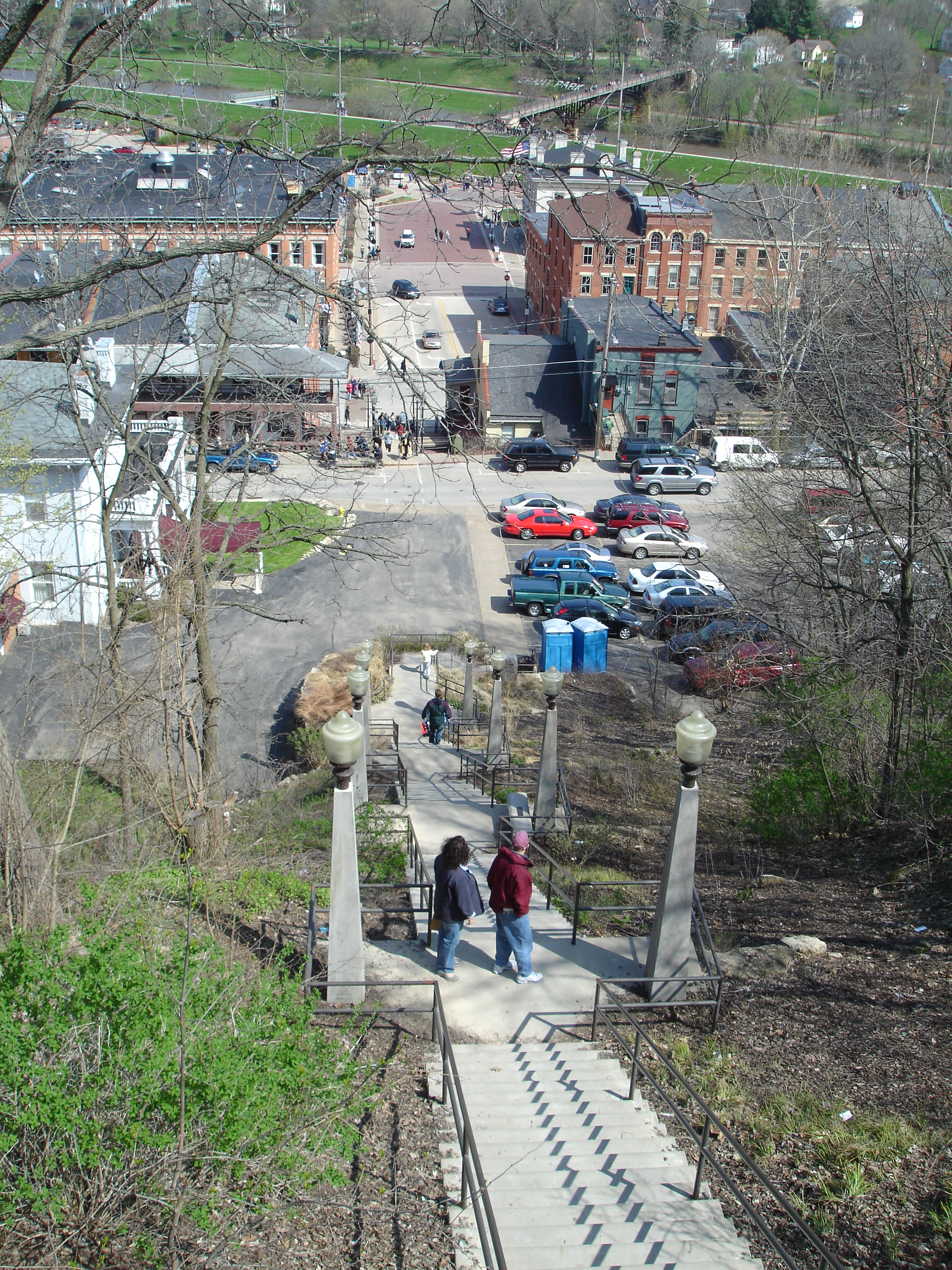 View of downtown Galena from corner of Prospect Street and Green Street, overlooking Bench and Main Street. Part of the Galena Historic District, Galena, Illinois, USA. U.S. National Register of Historic Places.